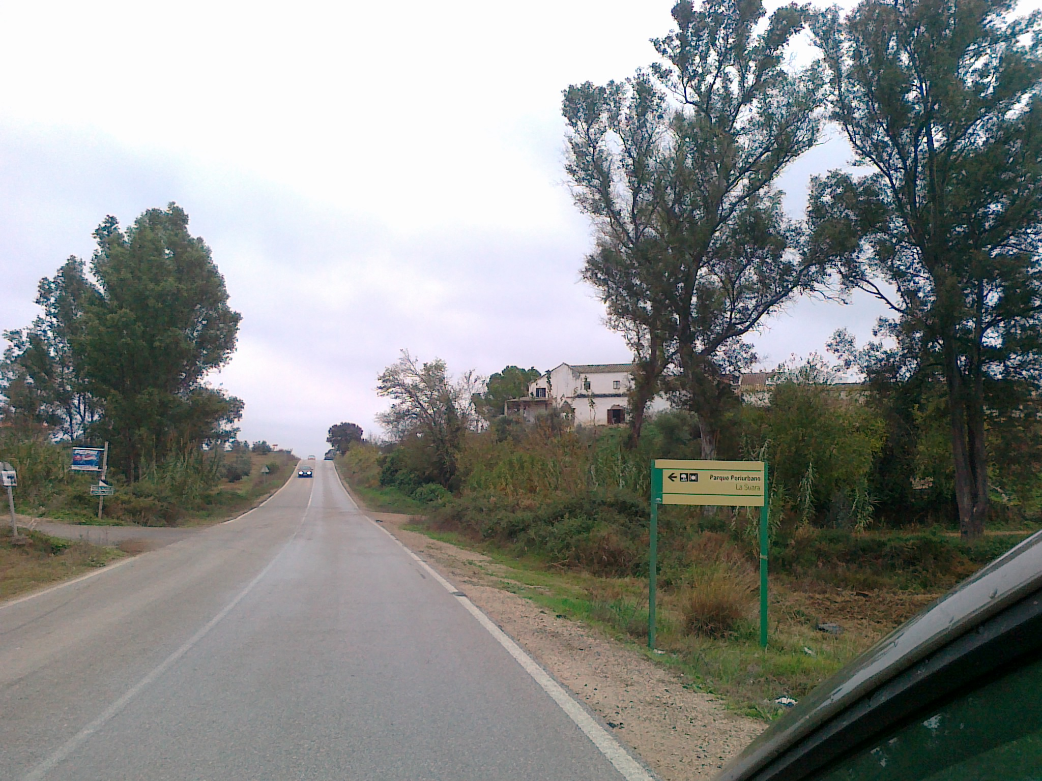 La Suara - Jerez de la Frontera